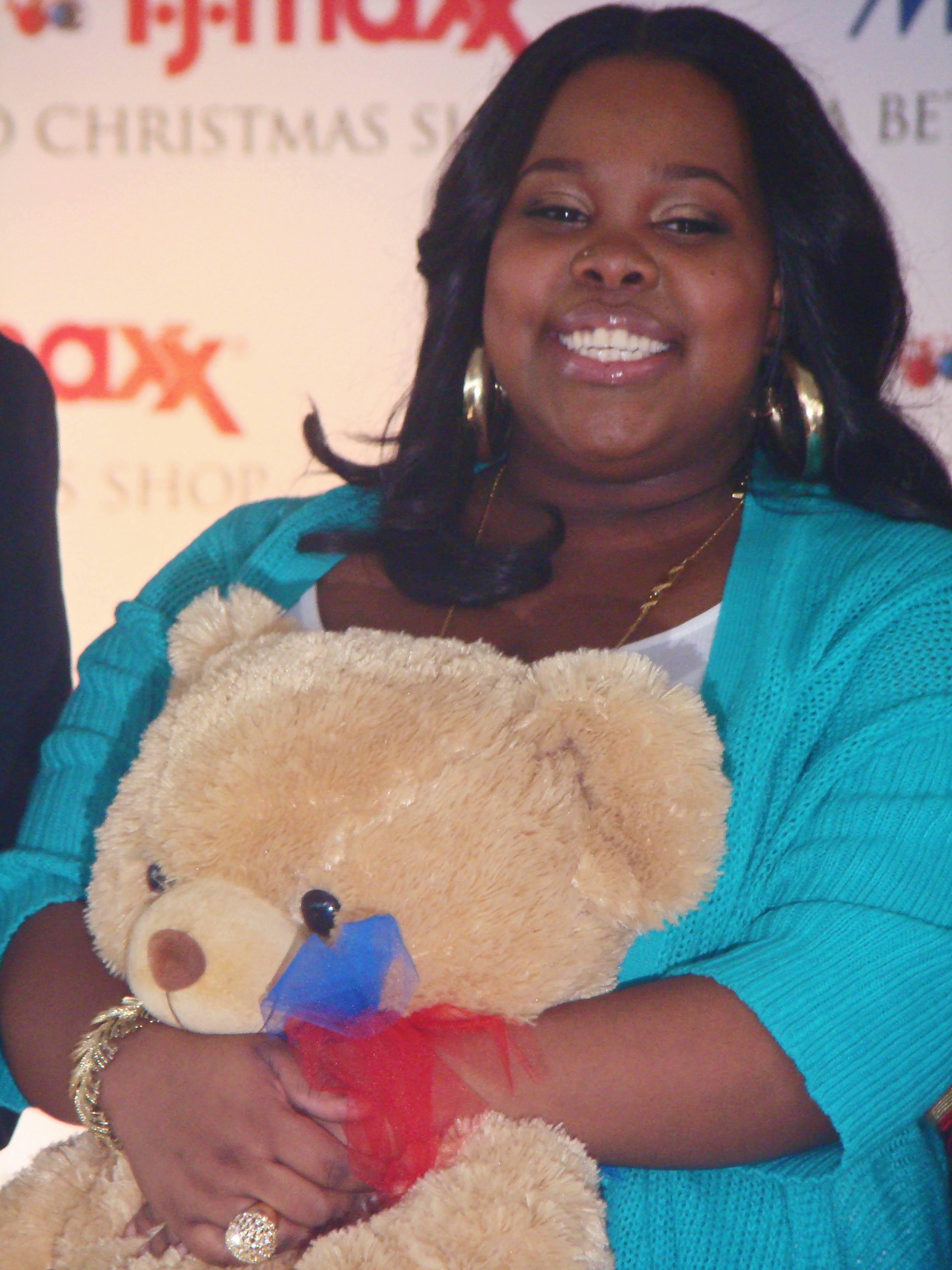 Glee cast-member Amber Riley (Mercedes) loves her teddy-bear at a charity appearance in Bryant Park in conjunction with the Marine Corps Toys for Tots program.